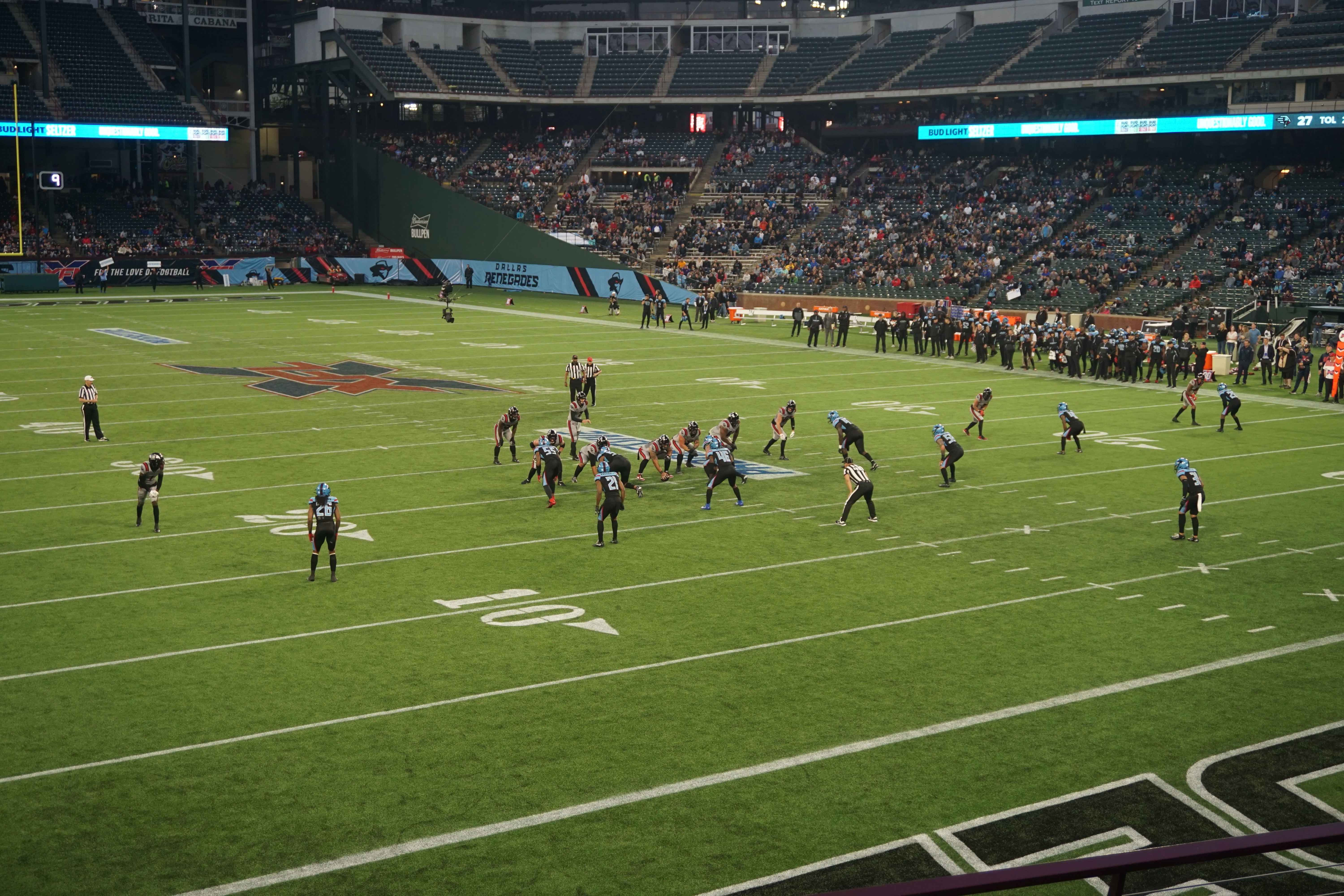 New York on offense during the New York Guardians vs. Dallas Renegades game at Globe Life Park in Arlington, Texas (United States). New York won 30–12.